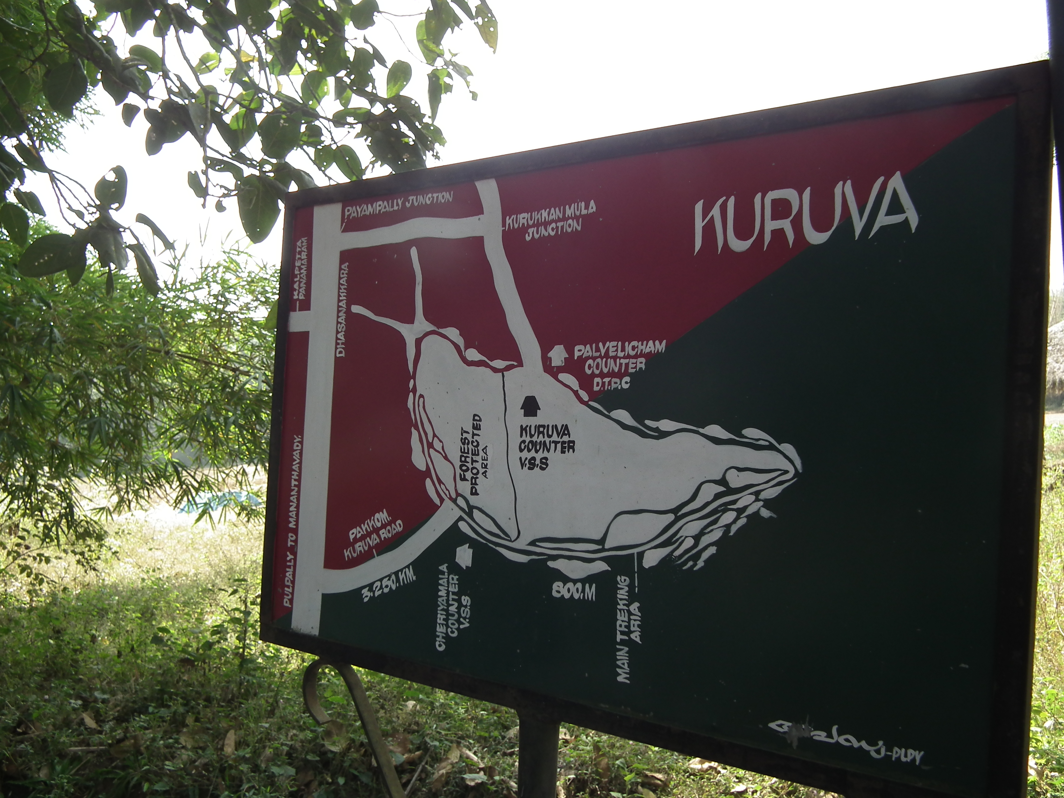 snap from Kuruvadweep Area.